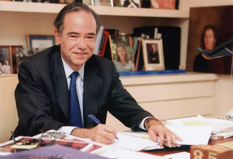 Gregorio Marañón y Bertrán de Lis